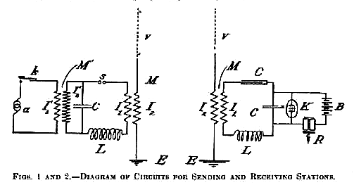 "The Stone Wireless Telegraph System", Electrical Review, October 24, 1903, page 594. "a is a source of alternating current; k is a controlling key; M is a transformer for charging the condenser C; s is a discharge gap, and L a variable inductance for tuning. I(1) is the primary of a transformer, the secondary of which I(2) is connected in the aerial wire. When the key is closed the condenser is charged and discharges across the spark-gap through the oscillating circuit sI(1)LC. This circuit is so constructed that these oscillations are harmonic and, by means of the transformer M, they impress forced harmonic vibrations on the aerial wire. These are radiated through space and received by a similar arrangement of circuits, as shown in Fig. 2."